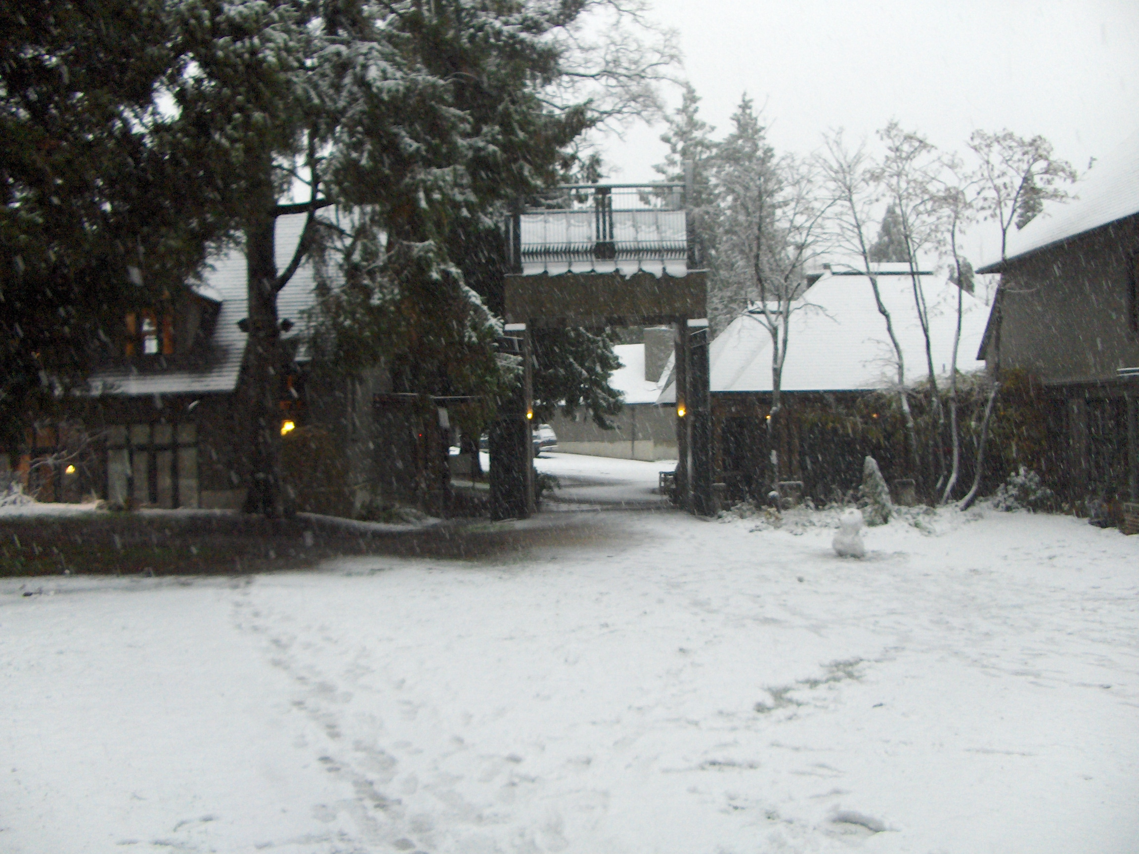 Interior of residential courtyard at Green College, University of British Columbia, in snow, showing administration building, main gate, Coach House, and part of Graham House.